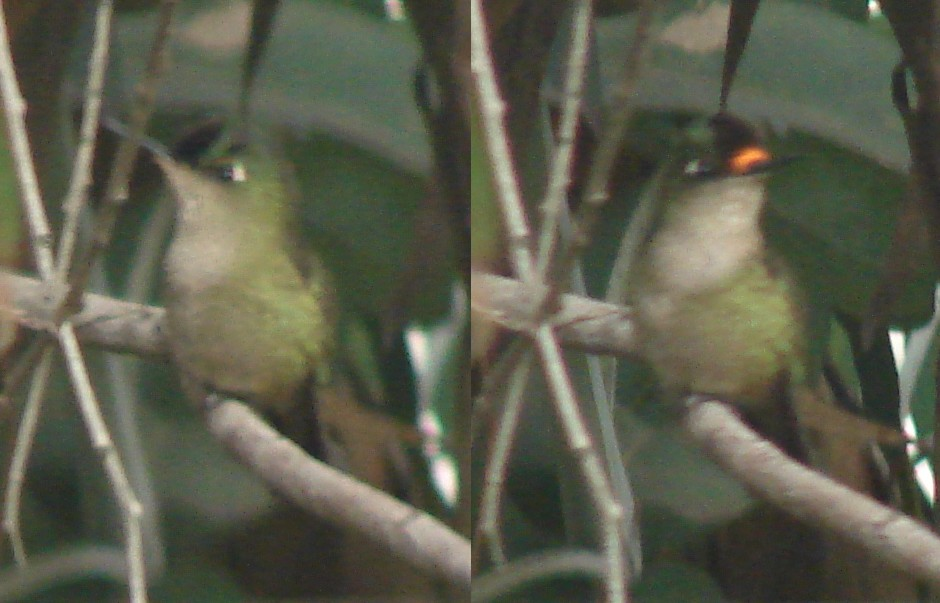 Shows two images side-by-side of a green-backed firecrown hummingbird (Sephanoides sephaniodes) taken three seconds apart. Both images are of the same bird. This comparison shows the strong directional dependence of the firecrown. It may be very bright from the front but completely invisible from the sides. Also note the white spots behind the eyes. Taken by Dr. Jason L. Quinn.